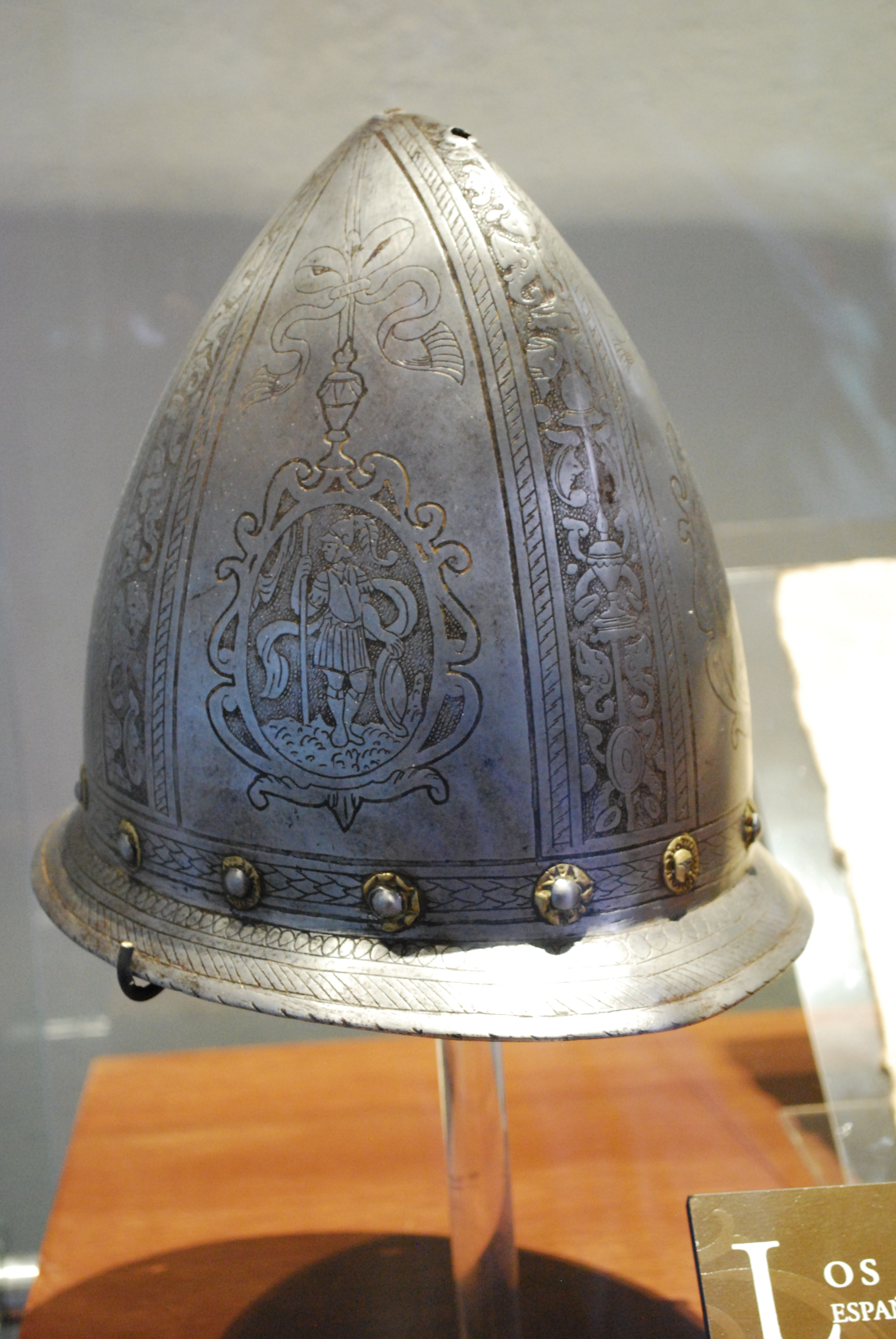 16th century helmet at the Allende House museum in San Miguel Allende, Guanajuato Mexico